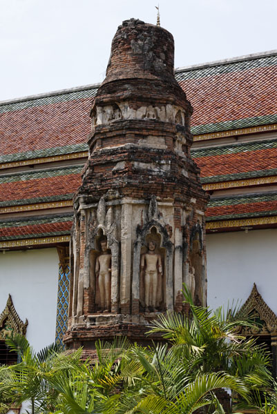 Wat Kukut (Wat Chama devi), Lamphun, Thailand - Example of Dvaravati art